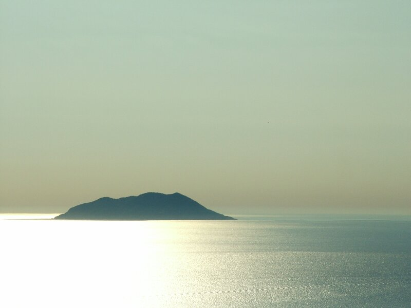 View towards Sv. Andrija (Svetac), from Ravno-Kupinovica on Vis